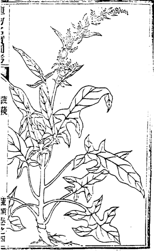 Spinach in book 植物名實圖考 by 吳其濬 in Ch'ing era in China. 粵語: 清吳其濬撰植物名實圖考，中有菠薐圖。